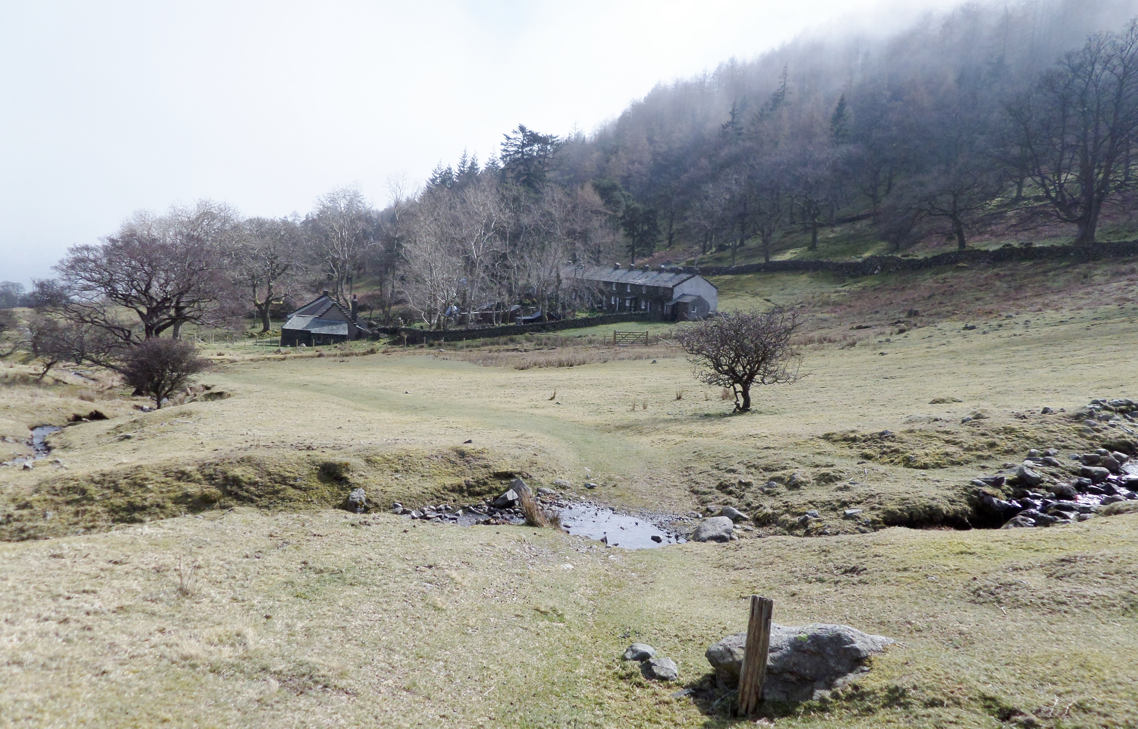 The hamlet of Seldom Seen in Glencoyne Dale with its old school and row of ten miners' cottages. These workers were employed at the Greenside lead mine at Greenside in Glenridding. Ullswater, Cumbria.